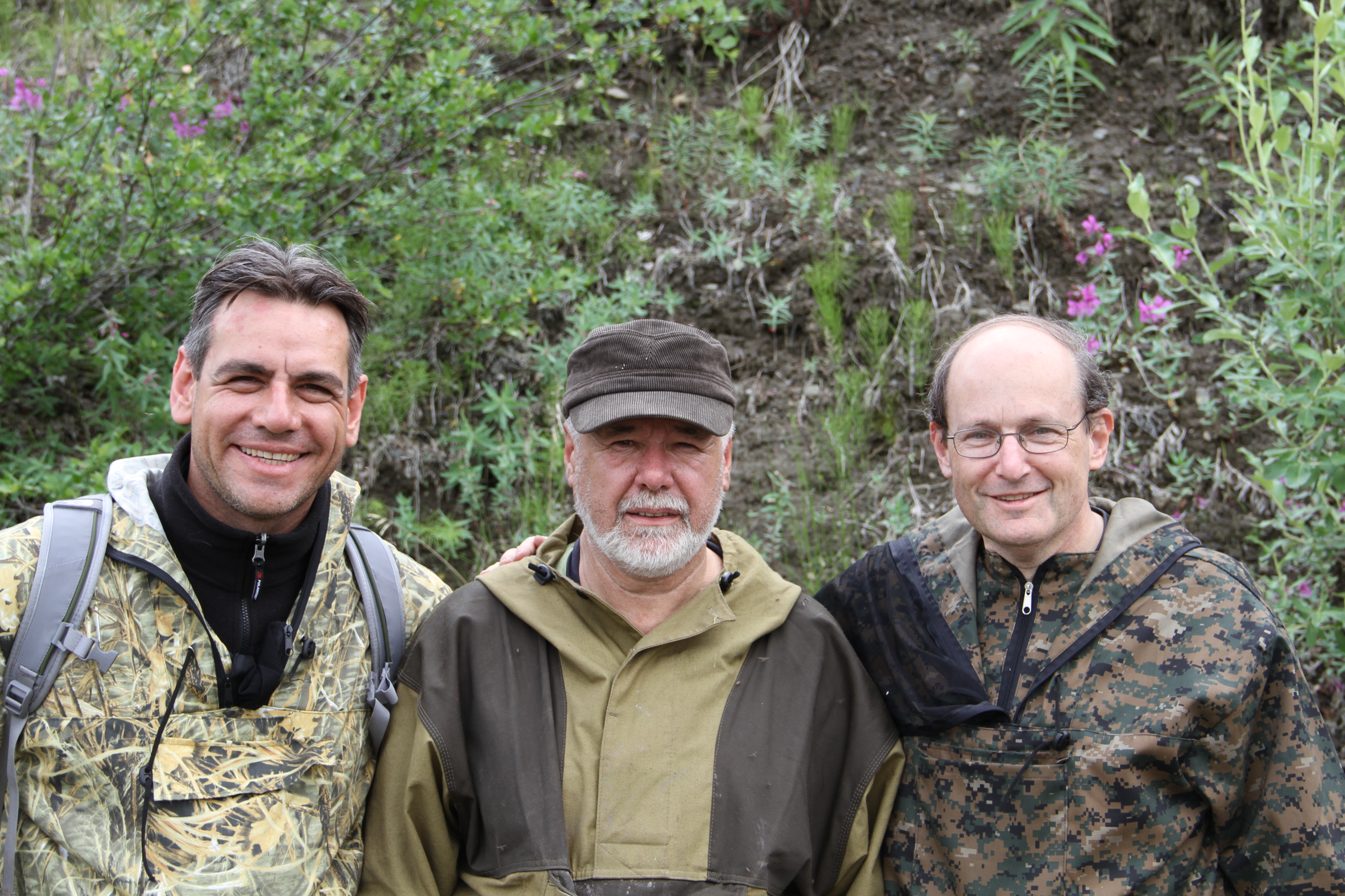 Luca Bindi, Valery Kryachko and Paul Steinhardt (left to right) 2011 Chutkotka Expedition Listvenitovyi stream, Koryaks